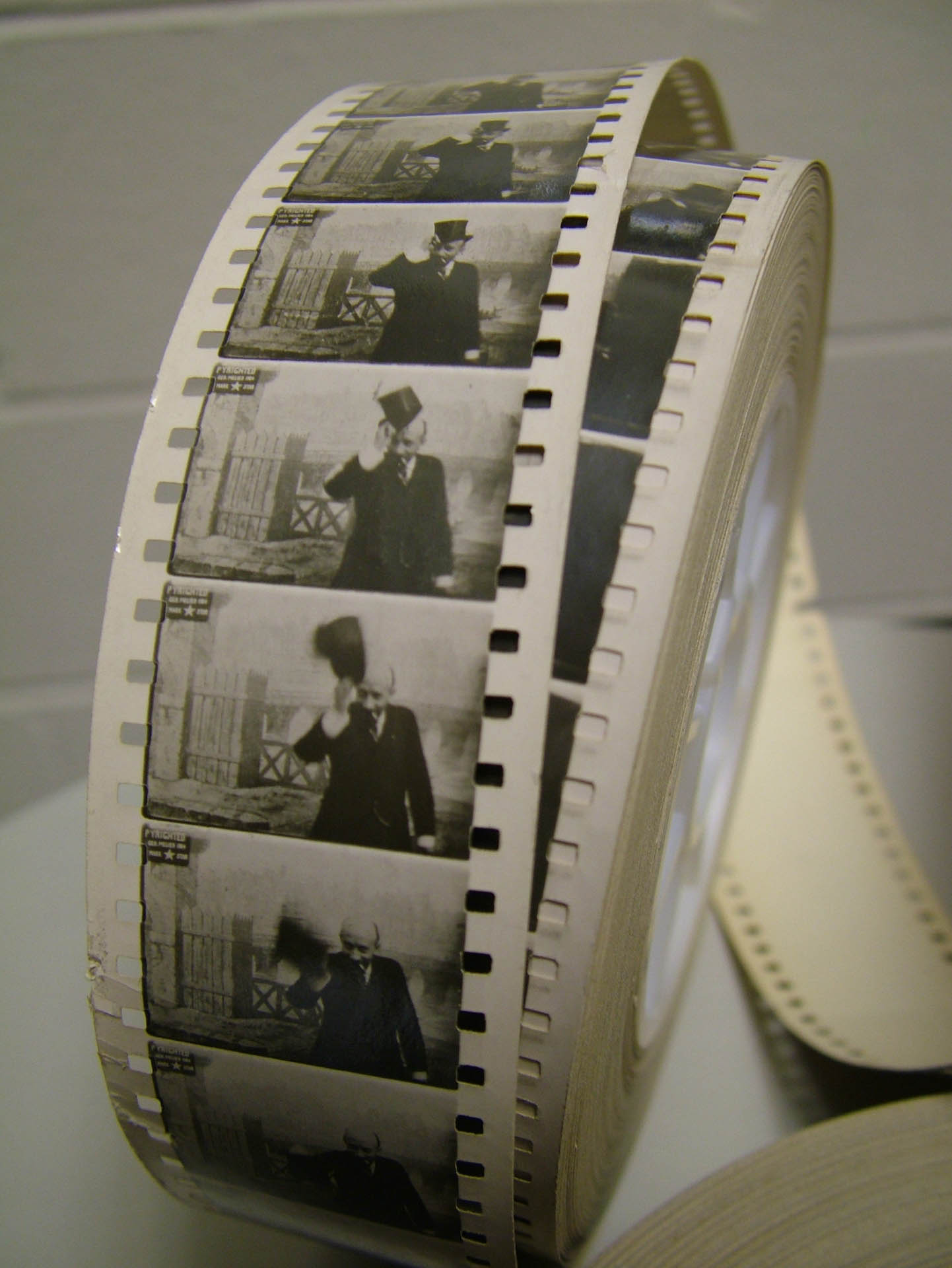 Paper print of The Untamable Whiskers (Le roi du maquillage, 1904), Georges Méliès greeting to the camera